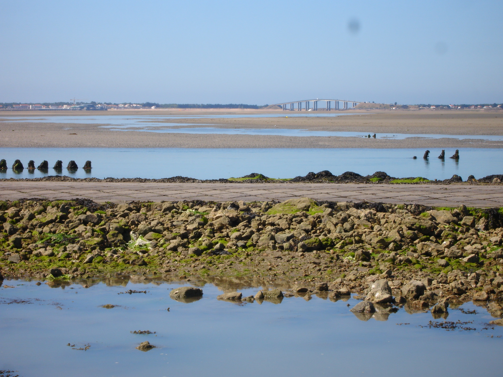 France, Vendée (85), Passage du Gois